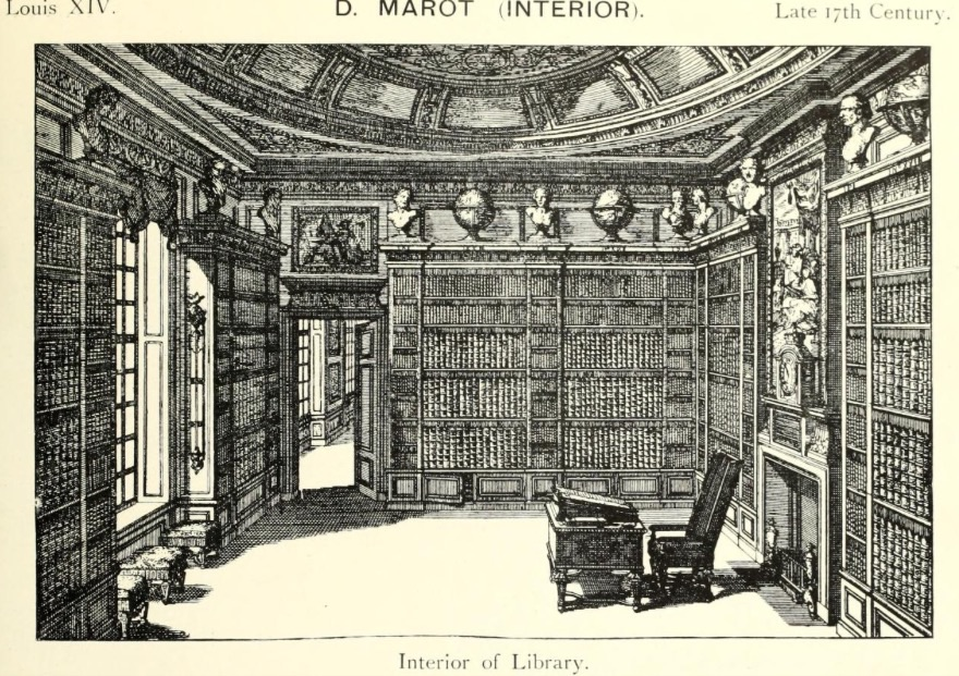 interior of Library